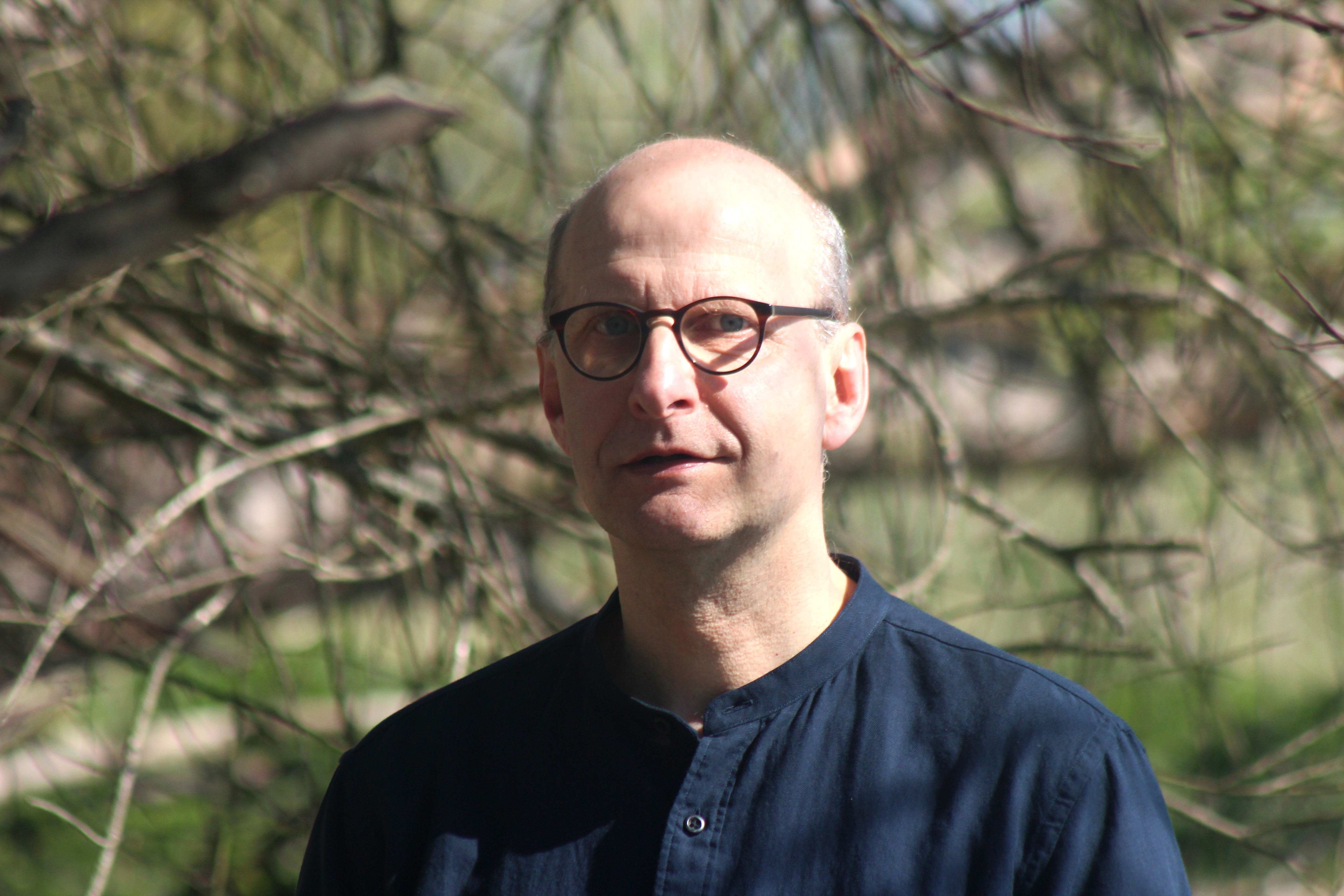 Matthias Steier, Painter, 2019